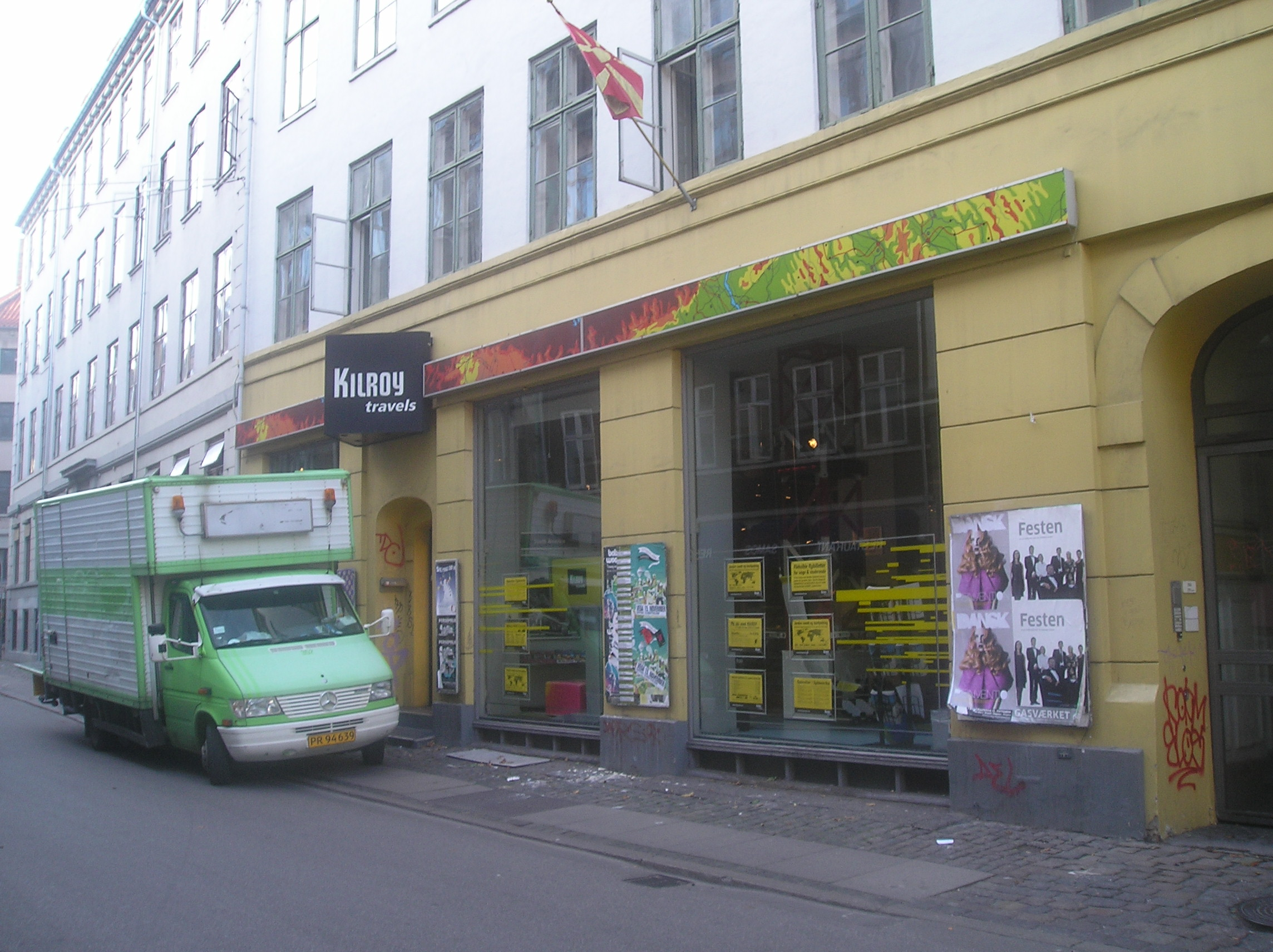 The travel agency Kilroy Travels in Skindergade, Copenhagen.